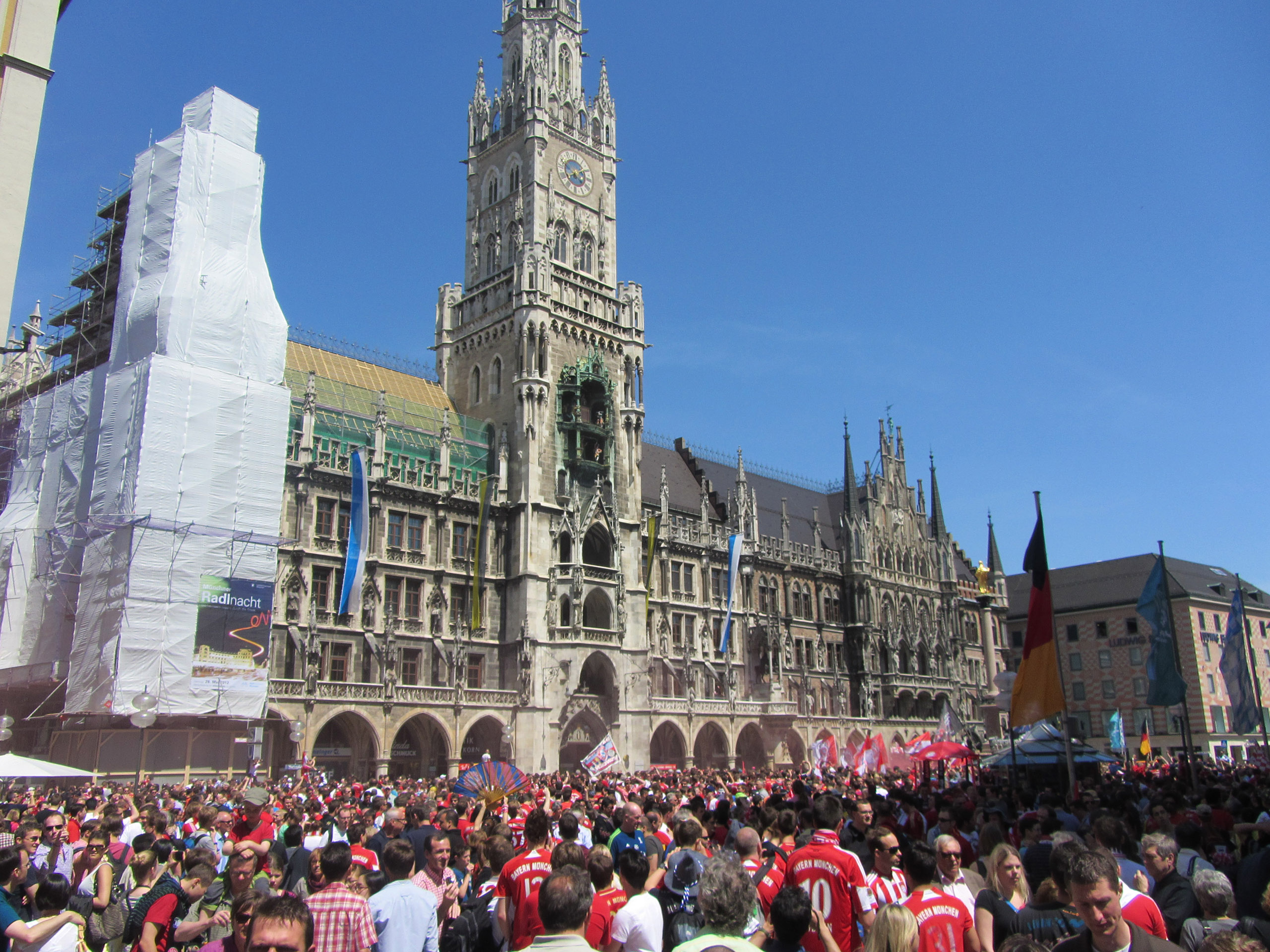 Bayern München - Chelsea FC 19.05.2012 Champions League Finale 2012 / "Finale Dahoam" Stimmung am Nachmittag am Marienplatz/vorm Rathaus Champions League Final 2012 Atmosphere in the city in the afternoon